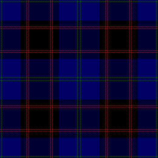 Home tartan, as published in the Vestiarium Scoticum. Modern thread count: B6 G4 B60 Bk20 R2 Bk4 R2 Bk70.